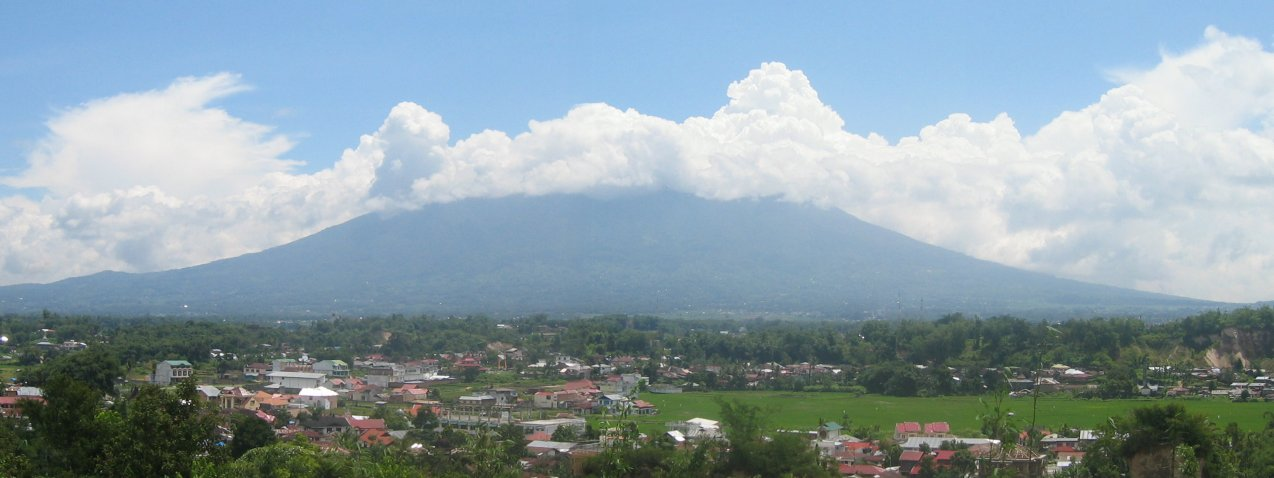 Photo taken by MichaelJLowe of Mount Marapi, Bukittinggi, West Sumatra, Indonesia